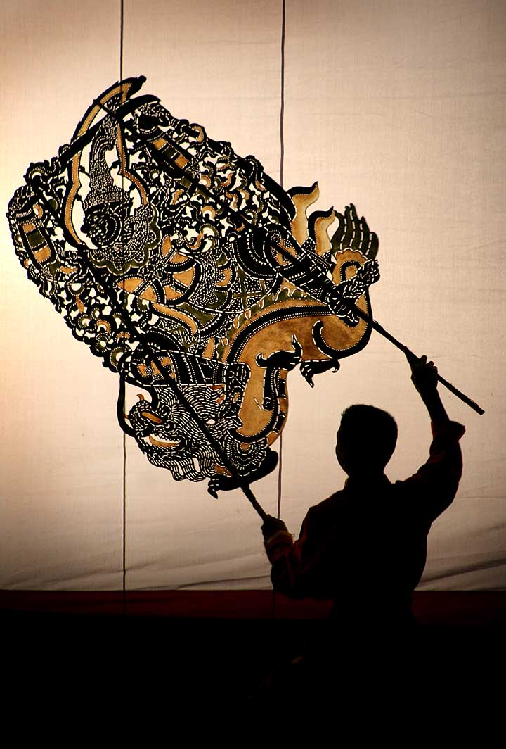 A buffalohide puppet used in Nang drama (Nang Yai), a form of shadow play from Thailand. This puppet is one of many used in an hour-long telling of a story from the Ramayana.